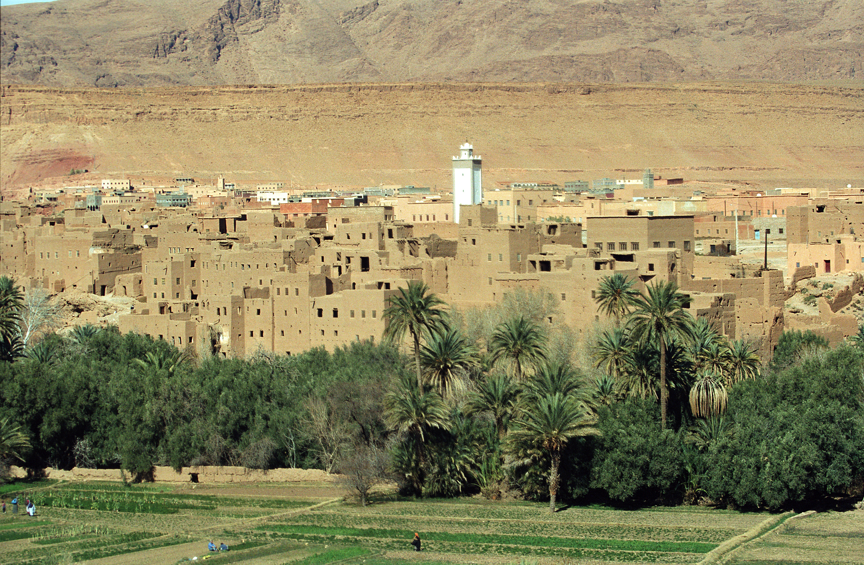 Atlas, Morocco, Todra Valley, Todra river, Tinghir